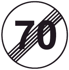 Diagram of road signs of Luxembourg